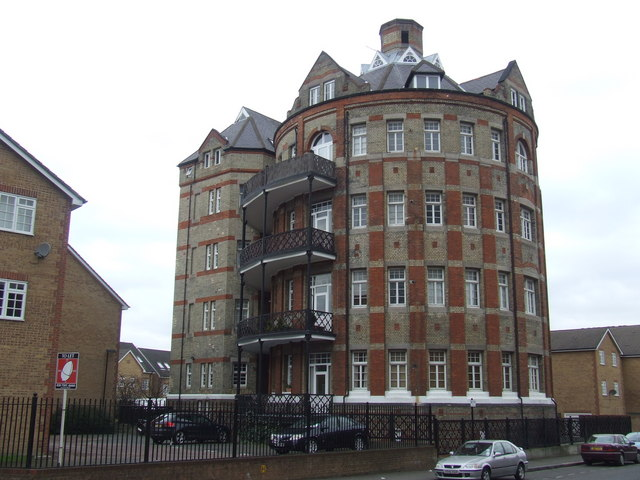 St Giles Tower Much of the former St Giles Hospital has been demolished and replaced by new housing/ The circular ward block of the old hospital survives, now converted into flats. View from Havil Street.